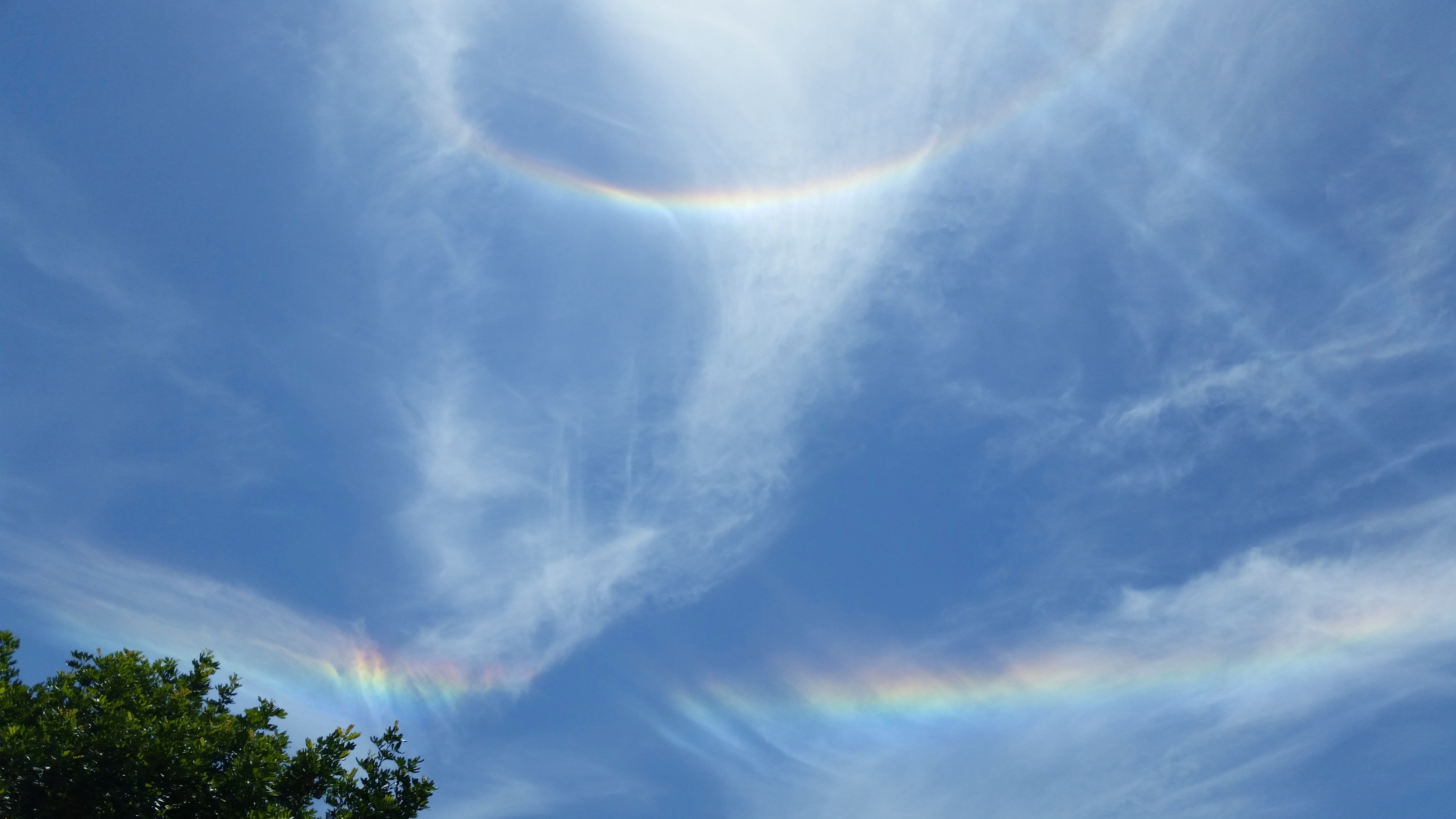 A rare Double Rainbow Halo in San Diego County, on June 1, 2014 at 1:57 PM.